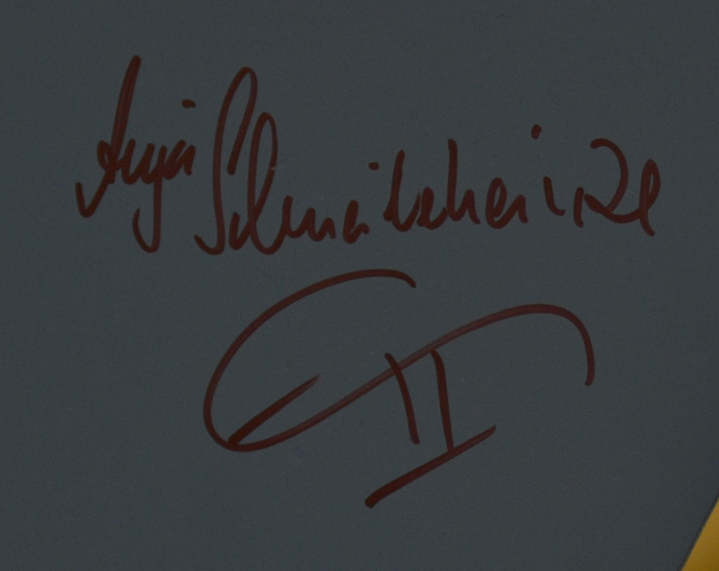 Outfitting the Olympic teams of Germany 2014; Media day January 20th 2014 at Military Airport Erding.